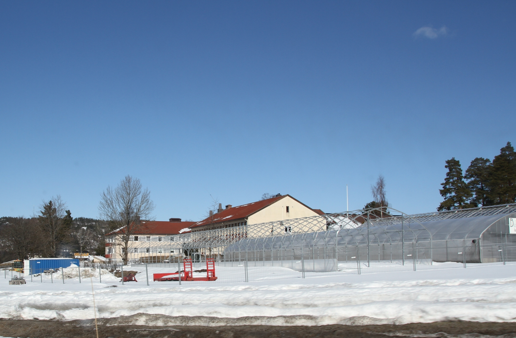 Image from the settlement Birkeland, center of the municipality of Birkenes, Aust-Agder county (Norway).